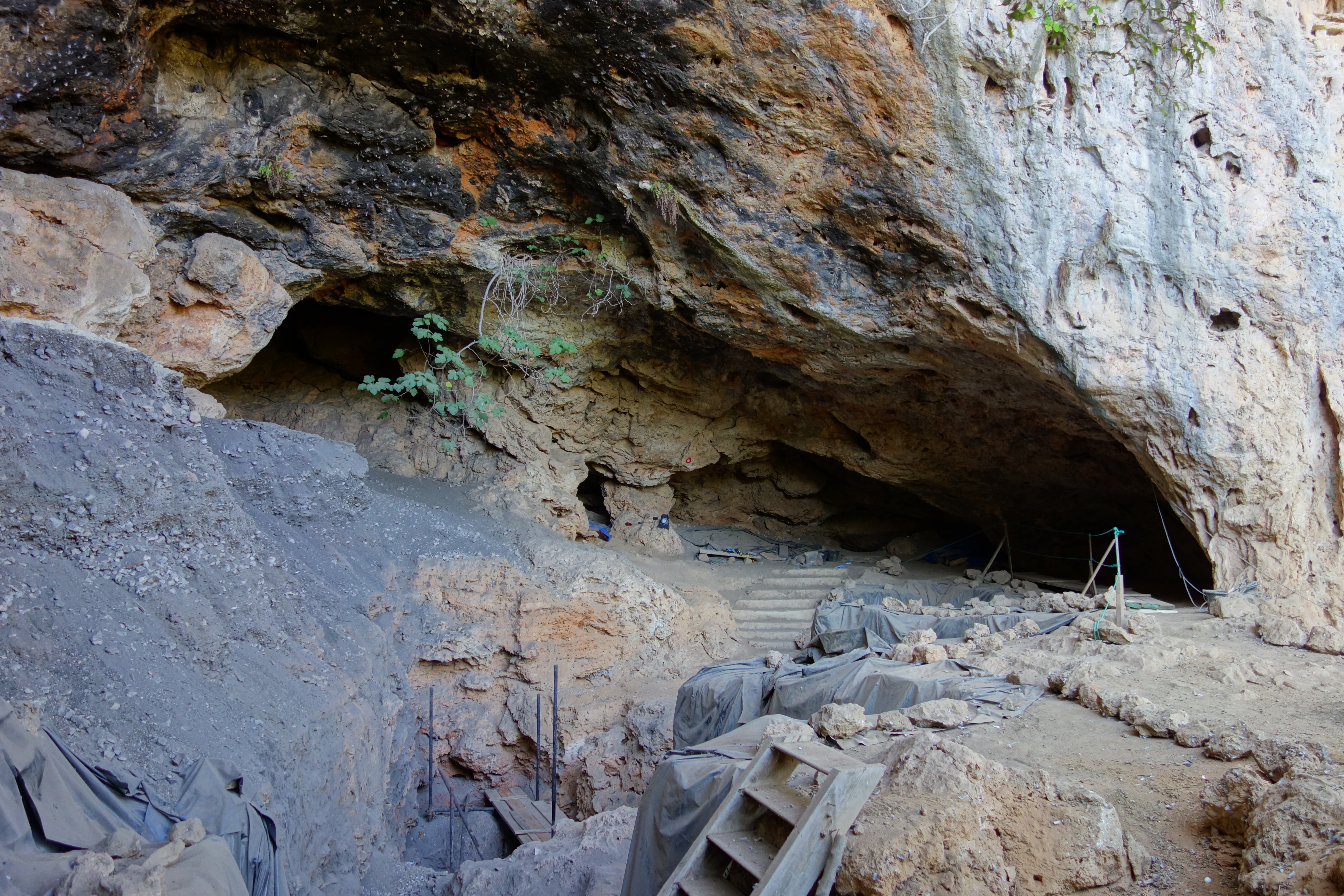 The site of Taforalt on 11 September 2017. The time of day in the metadata is not good.